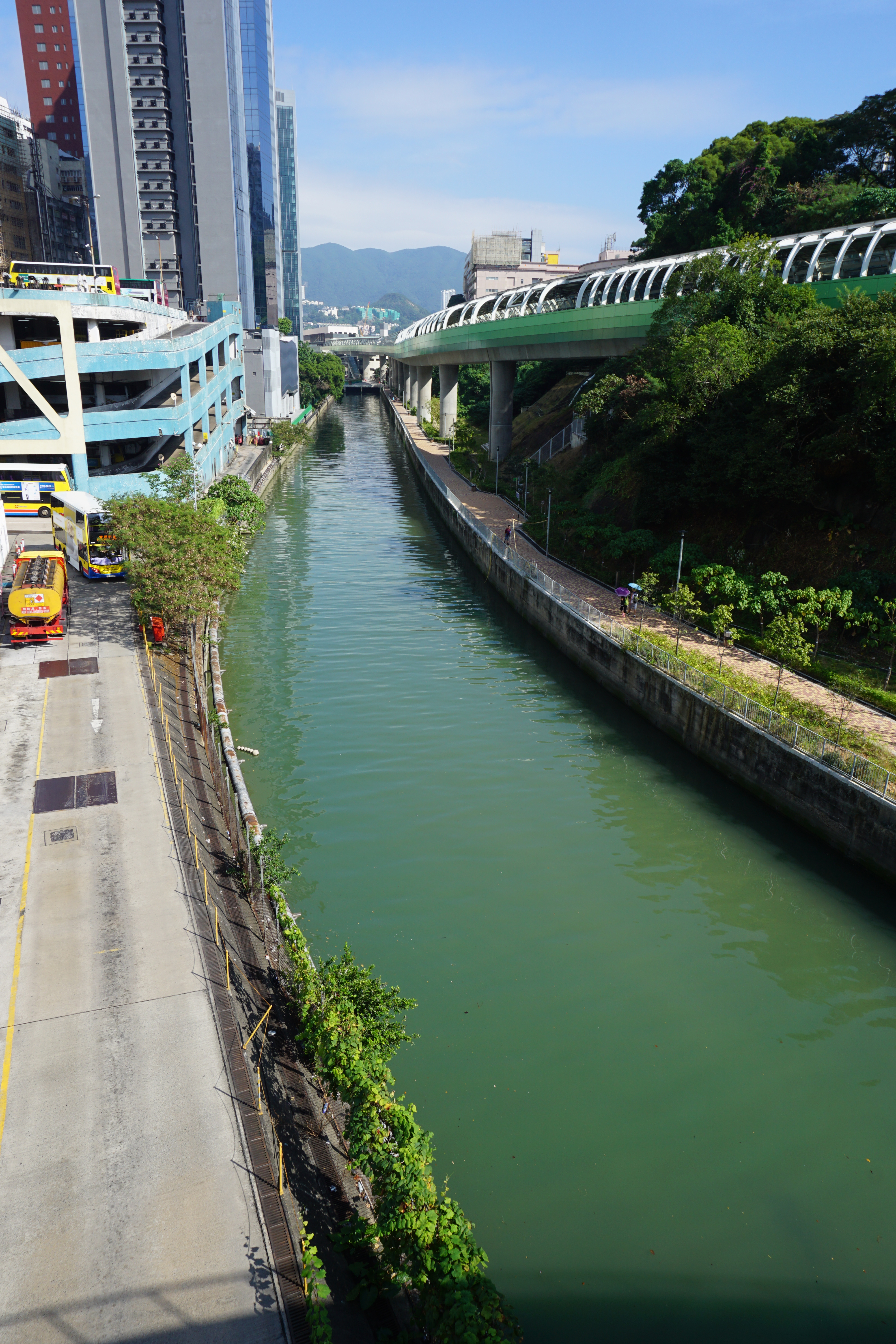 Staunton Creek Nullah in Wong Chuk Hang, Hong Kong.